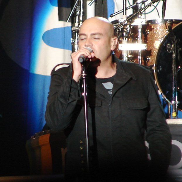 The Newsboys perform Saturday, June 30 at Creation Northeast 2007 . Cropped version of the original.